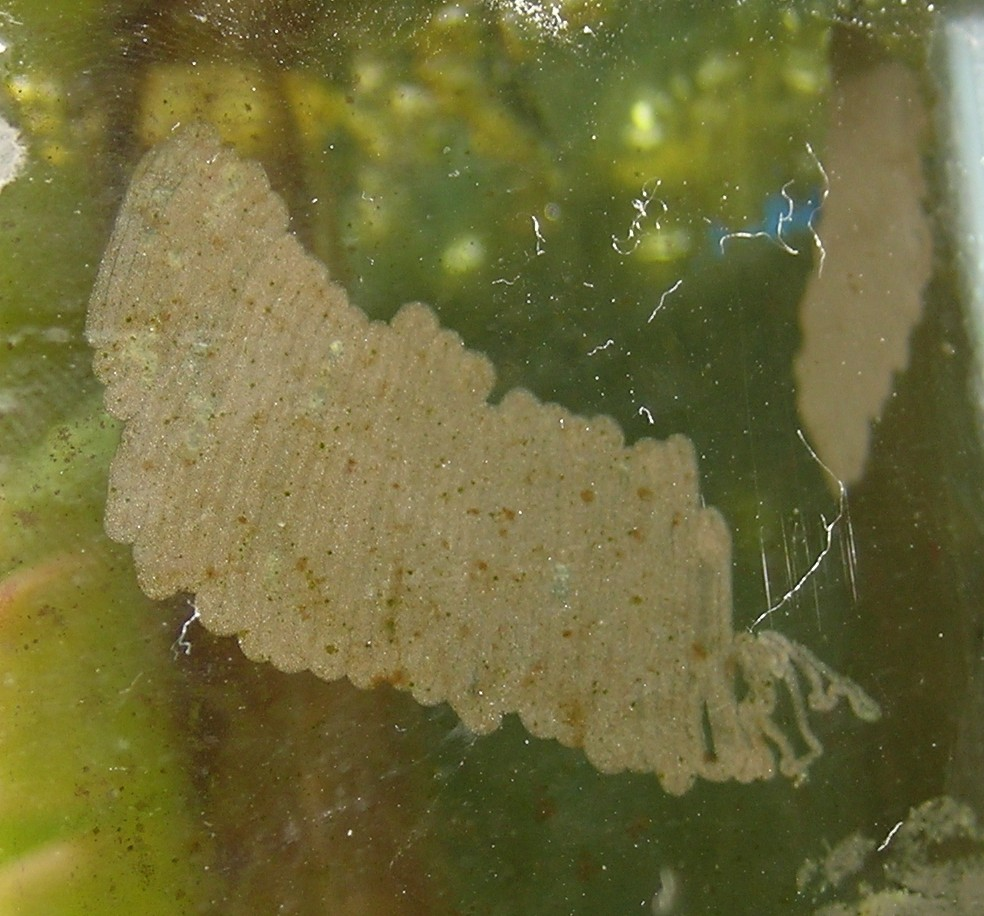 Photo of sea hare Dolabrifera dolabrifera egg ribbon by Dennis Gerasimov